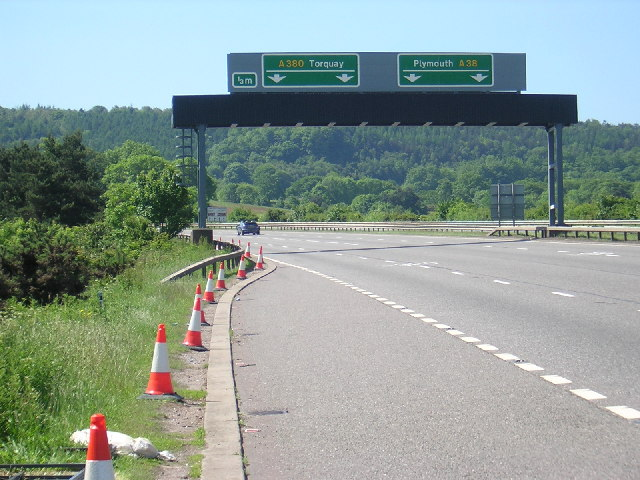 Take your choice for the west country. My wife has been known to reach Plymouth on the way back to Torquay!